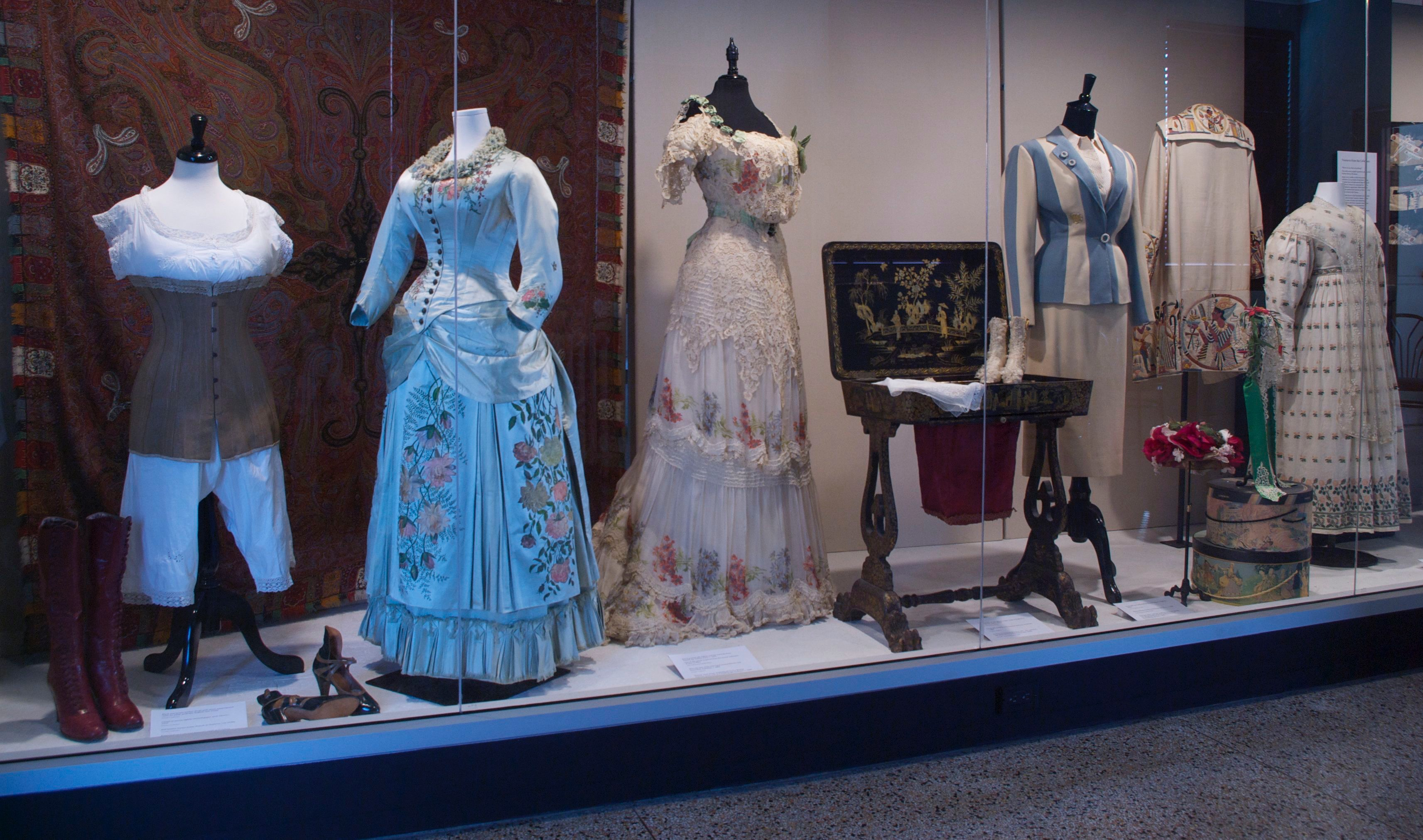 Image of the Treasures from the Collection exhibit, Fashion History Museum, Cambridge, Ontario.